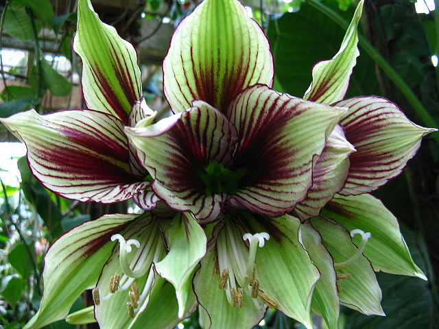 Hippeastrum papilio (Familia: Amaryllidaceae)